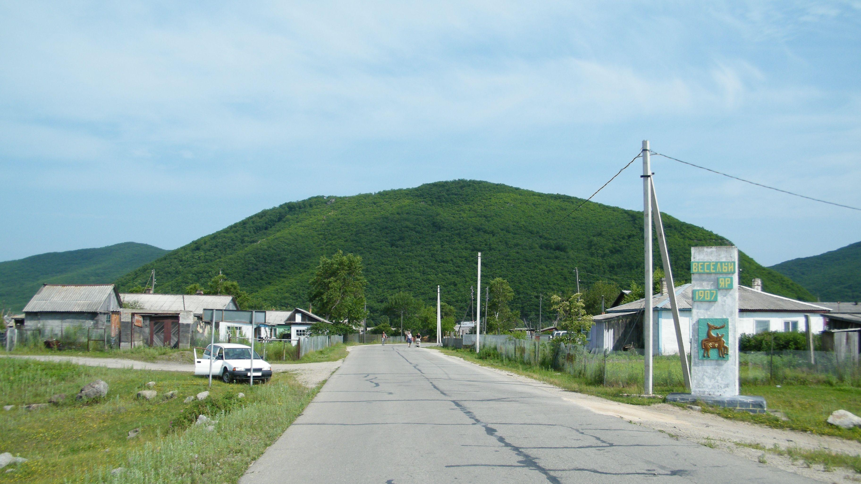 Село Веселый Яр Ольгинский район фото1